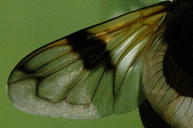 Picture taken in Commanster, Belgian High Ardennes . Species: Volucella pellucens, wing detail